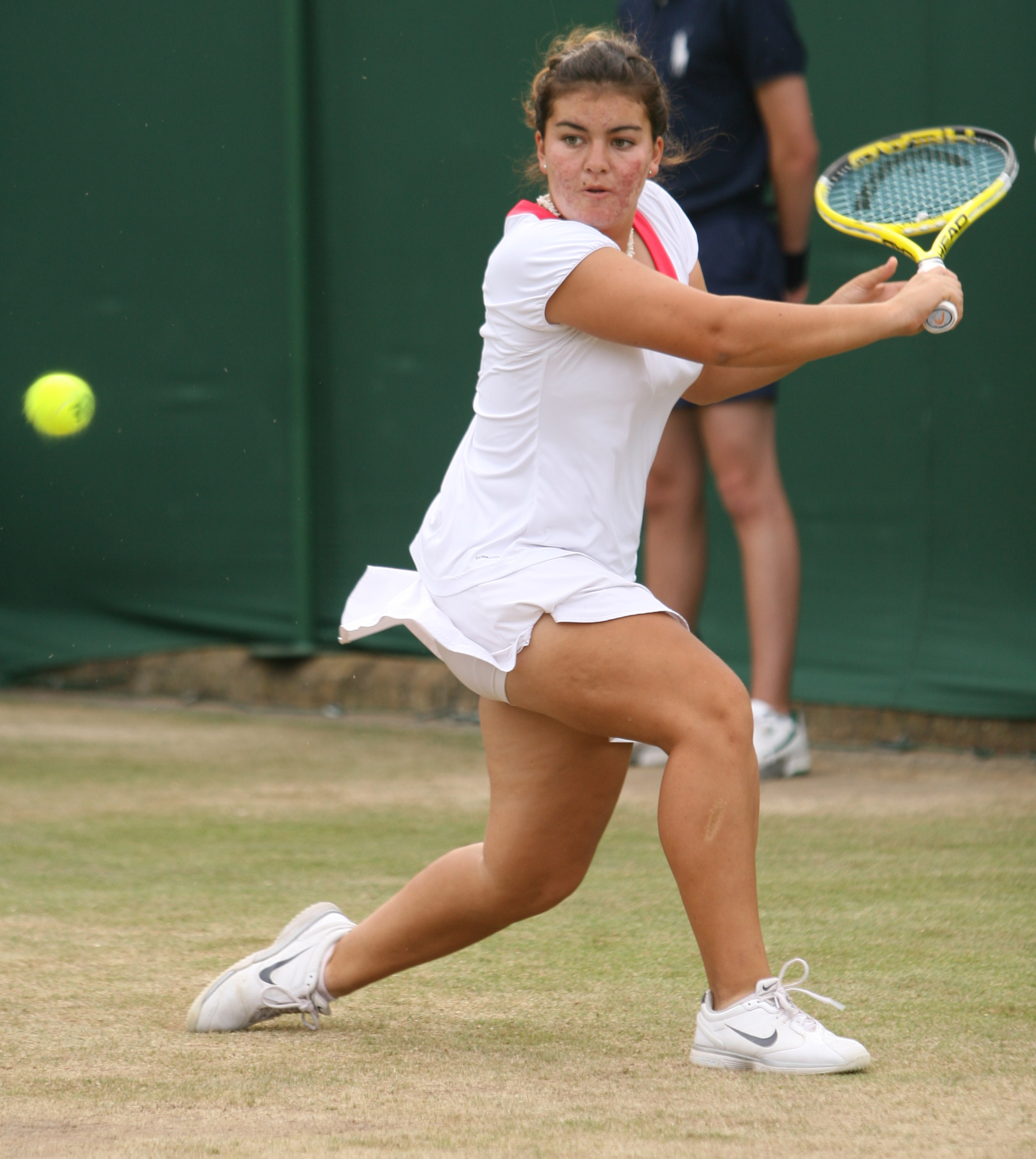 Fernanda Brito playing in the girls doubles first round at Wimbledon on 29th June 2010